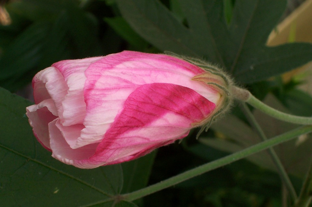 Hibiscus splendens - flower, a rainforest tree or shrub of eastern Australia